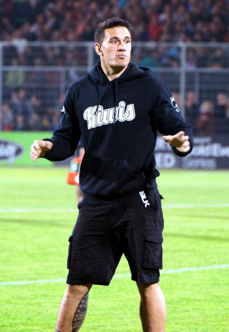 New Zealand rugby (both league and union) player Sonny Bill Williams